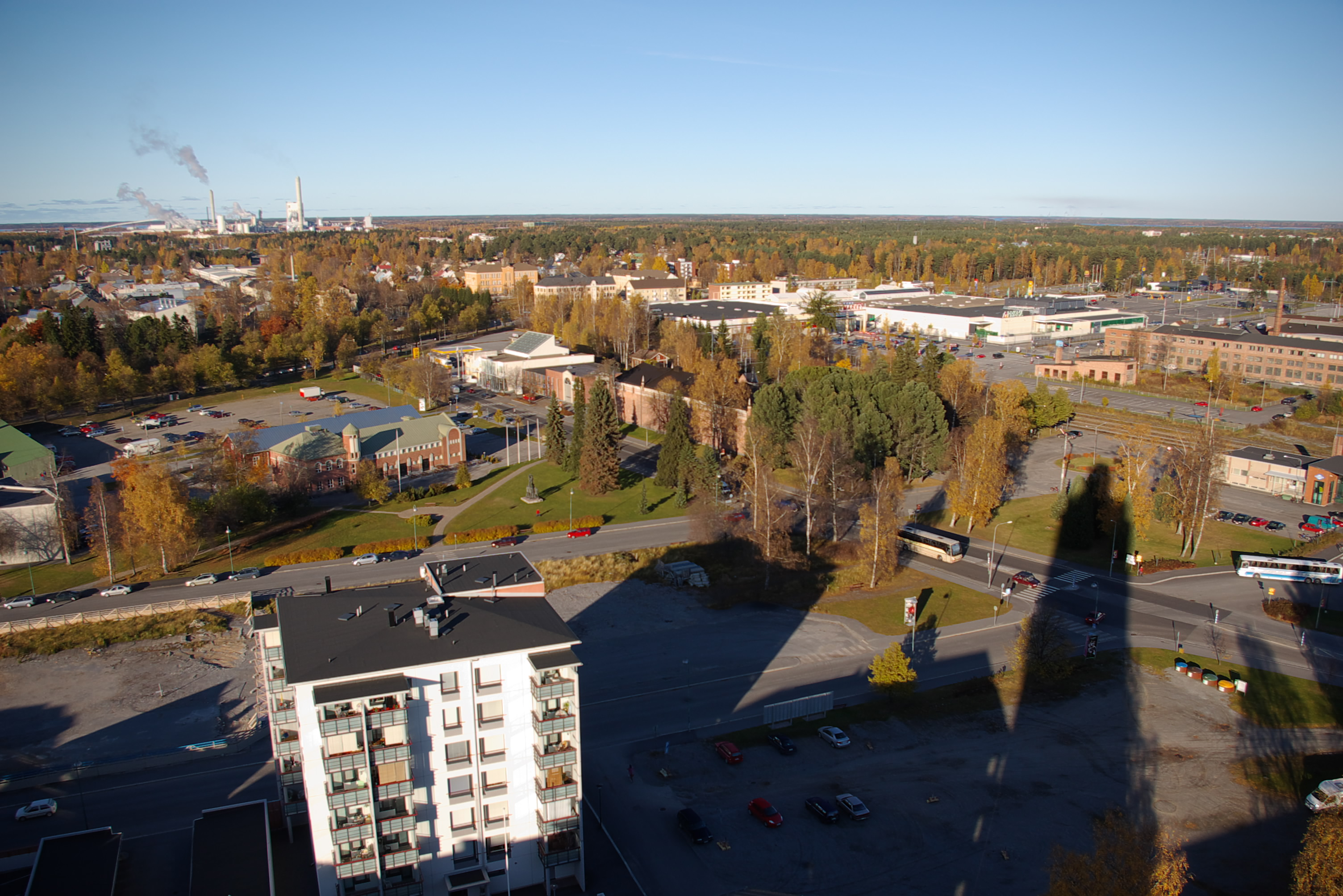 Jakobstad, Finland viewed from the water tower